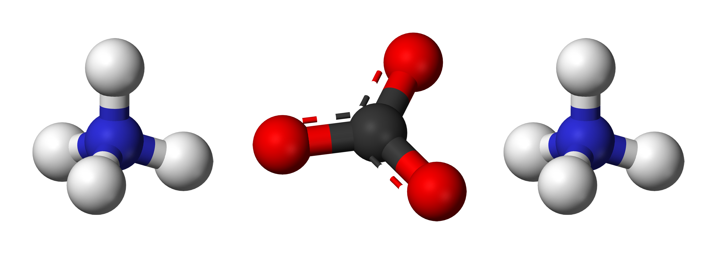 Ball-and-stick model of ammonium carbonate, shown two ammonium cations and one carbonate anion.